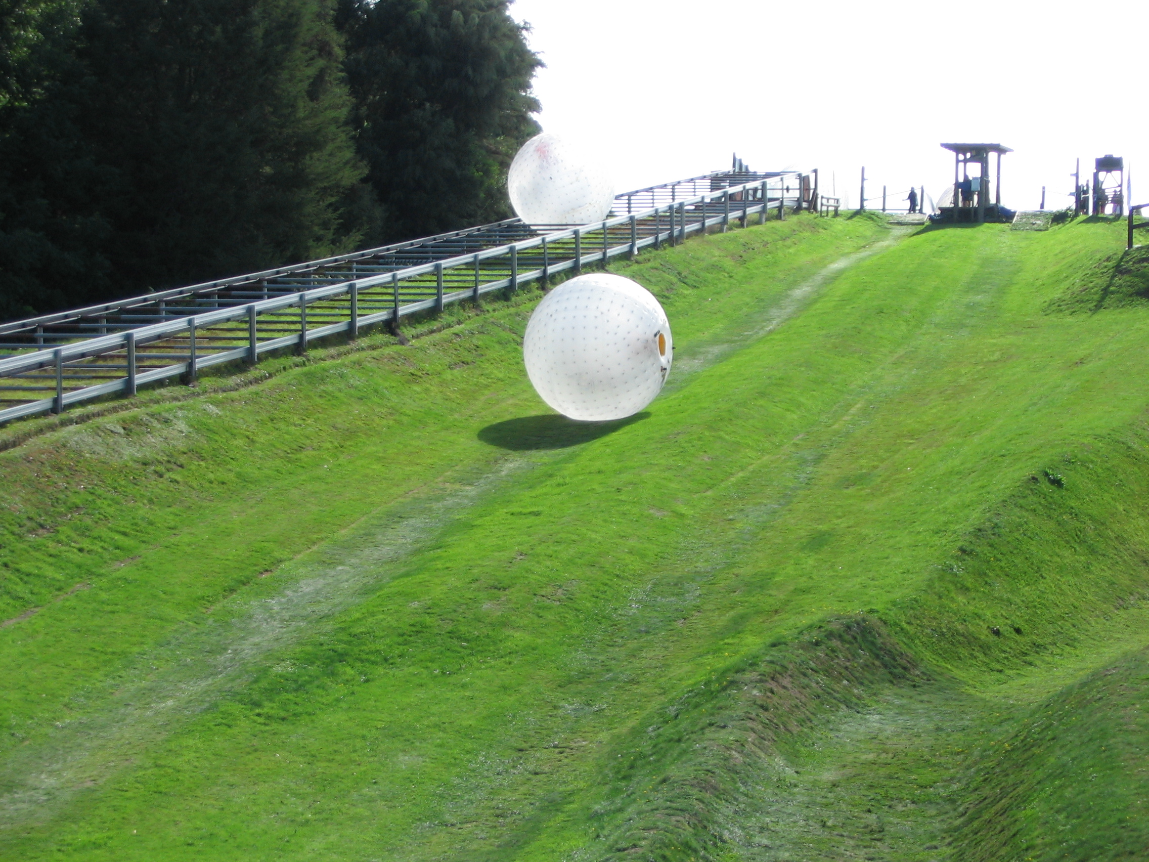 Zorbing - Argodome - Rotorua - New Zealand